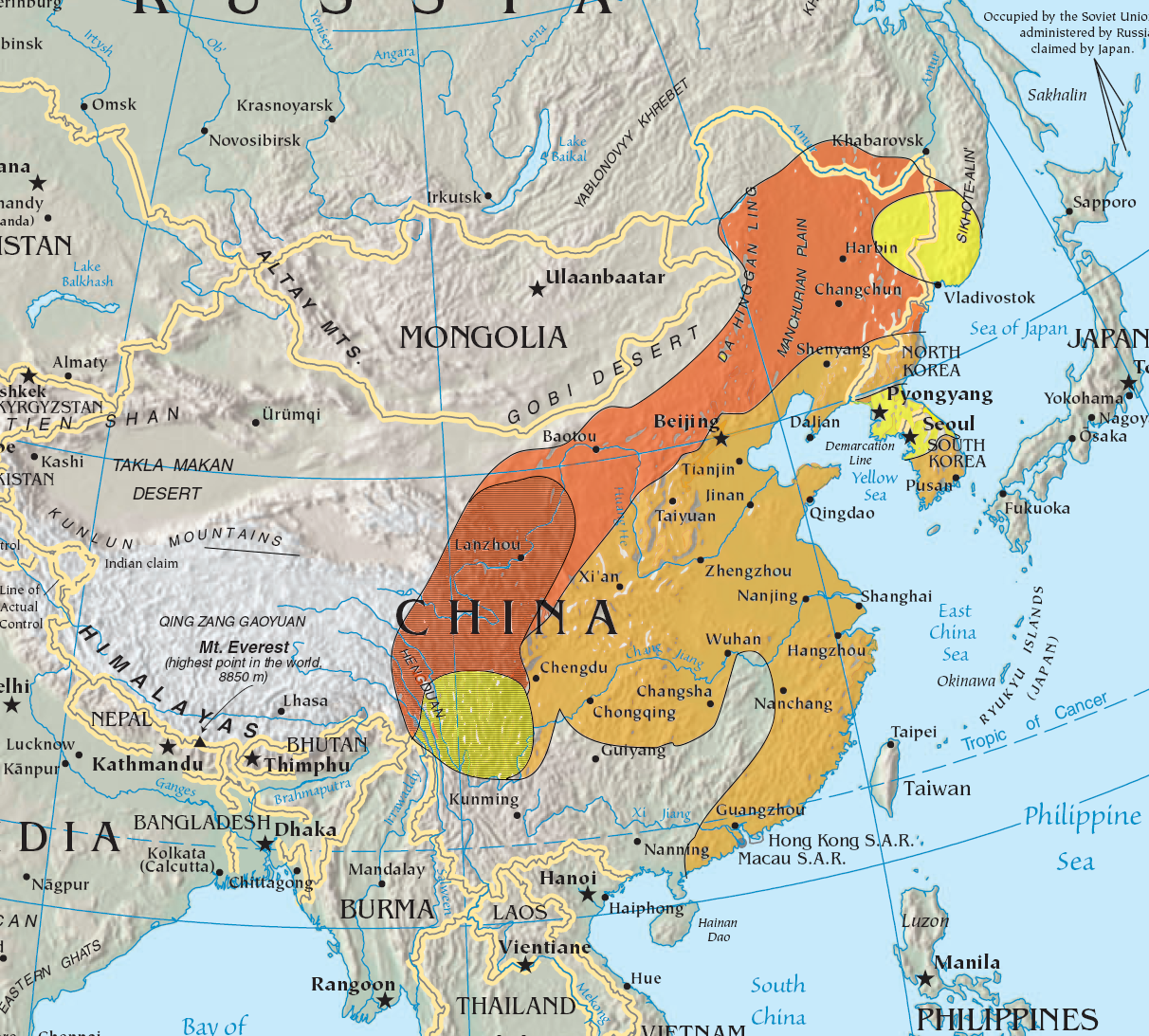 Distribution map of Lanius sphenocercus and Lanius giganteus